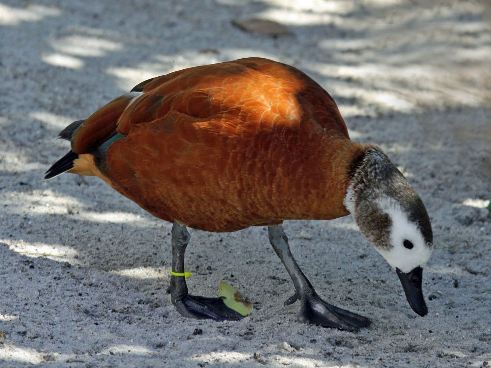 Female Cape Shelduck, also South African Shelduck (Tadorna cana) - Tampa's Lowry Park Zoo, Florida